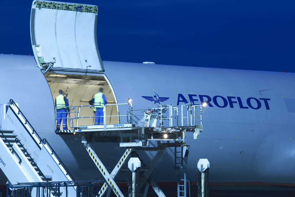 VP-BDR MD11F AFL loading